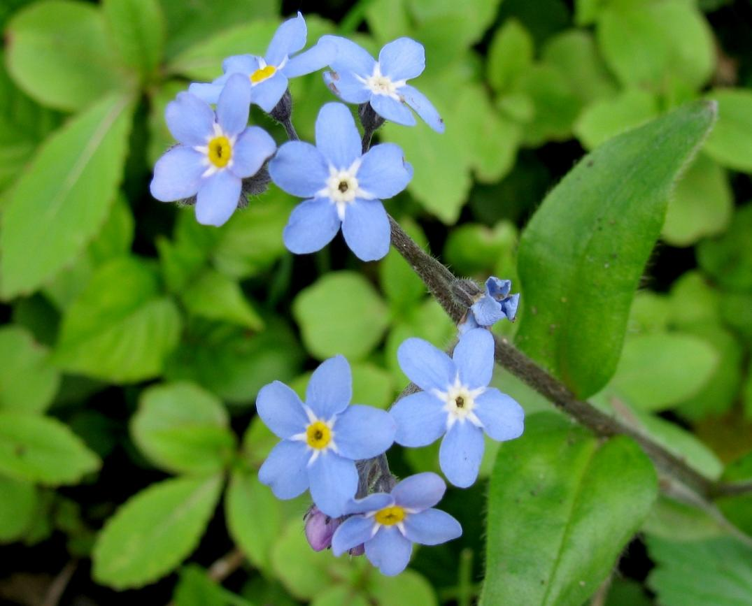 Wood forget-me-not - Myosotis sylvatica in Etherow Country Park, Stockport, Greater Manchester